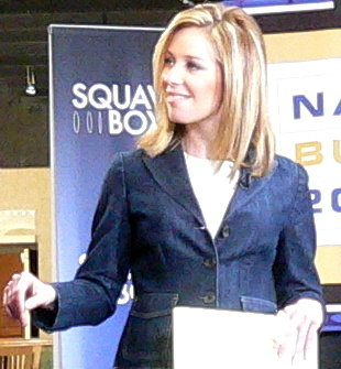 Cropped headshot of Becky QuickRemote Control